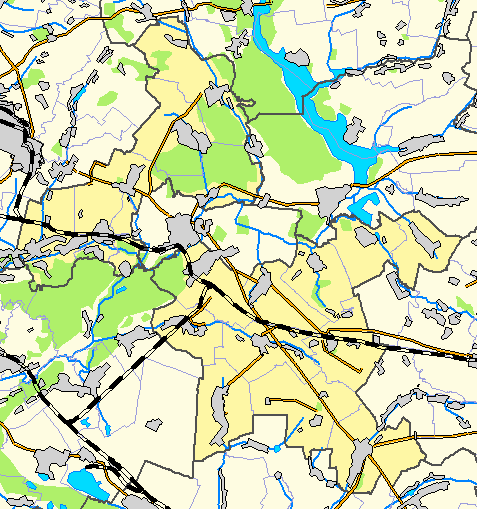 Chuhuivskyi raion, Kharkiv oblast, Ukraine